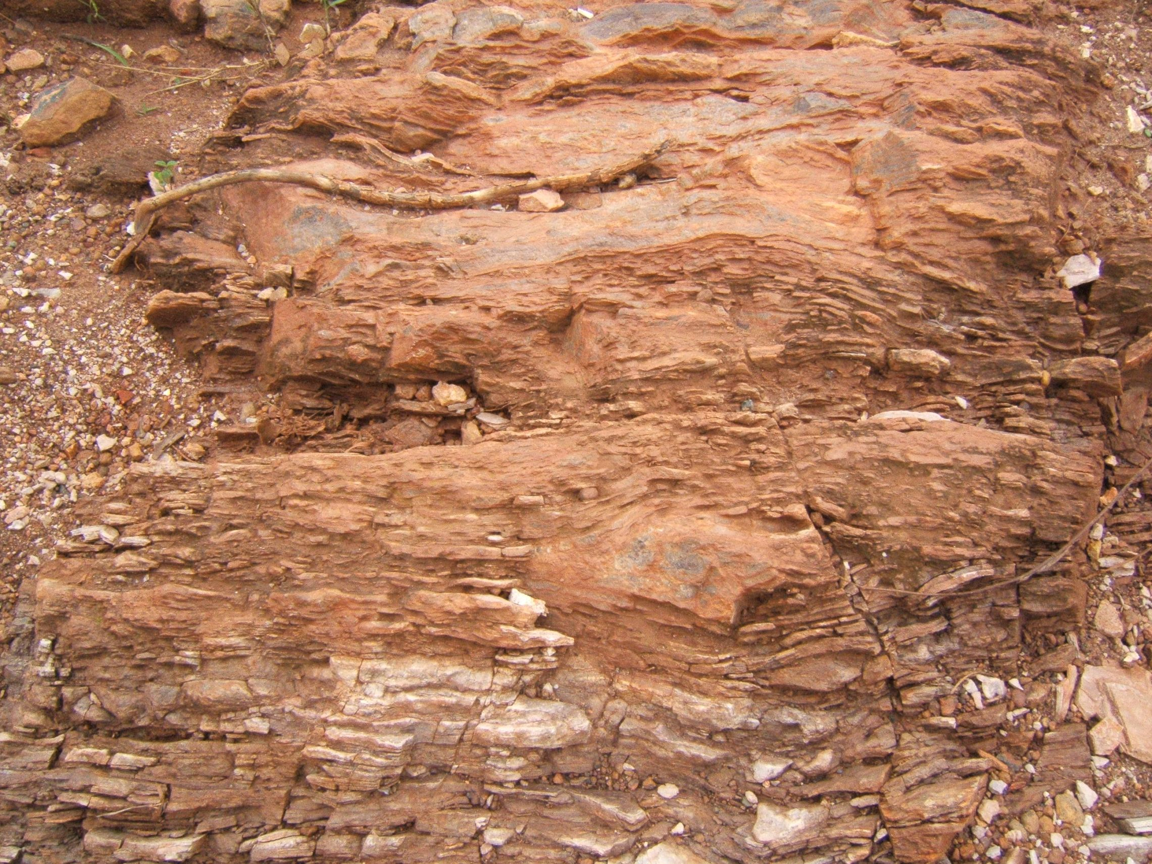 Stark Weathering of granit